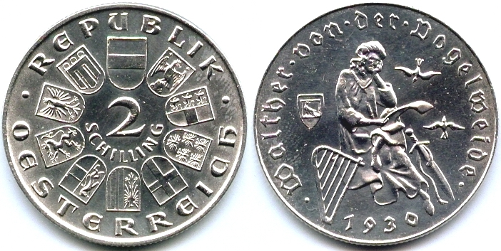 This image depict an coin of Austria called Schilling (2) from 1930. On the other side Walther von der Vogelweide, after the painting in the Codex Manesse, fol. 124r